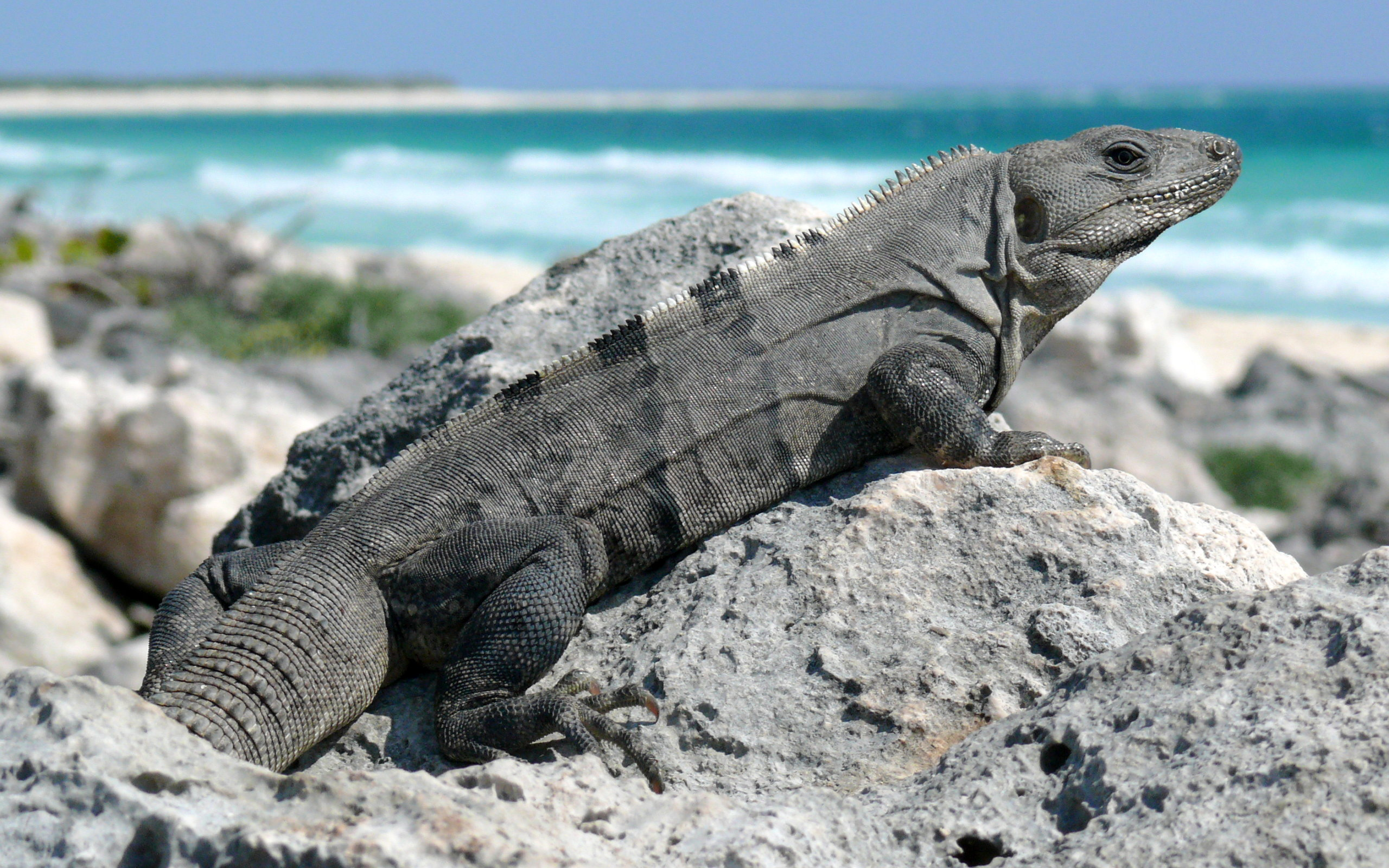 A young Black Spiny-tailed Iguana (Ctenosaura similis) perched on a rock in the sun. Photo taken with a Panasonic Lumix DMC-FZ50 on the island of Cozumel in Quintana Roo, Mexico.